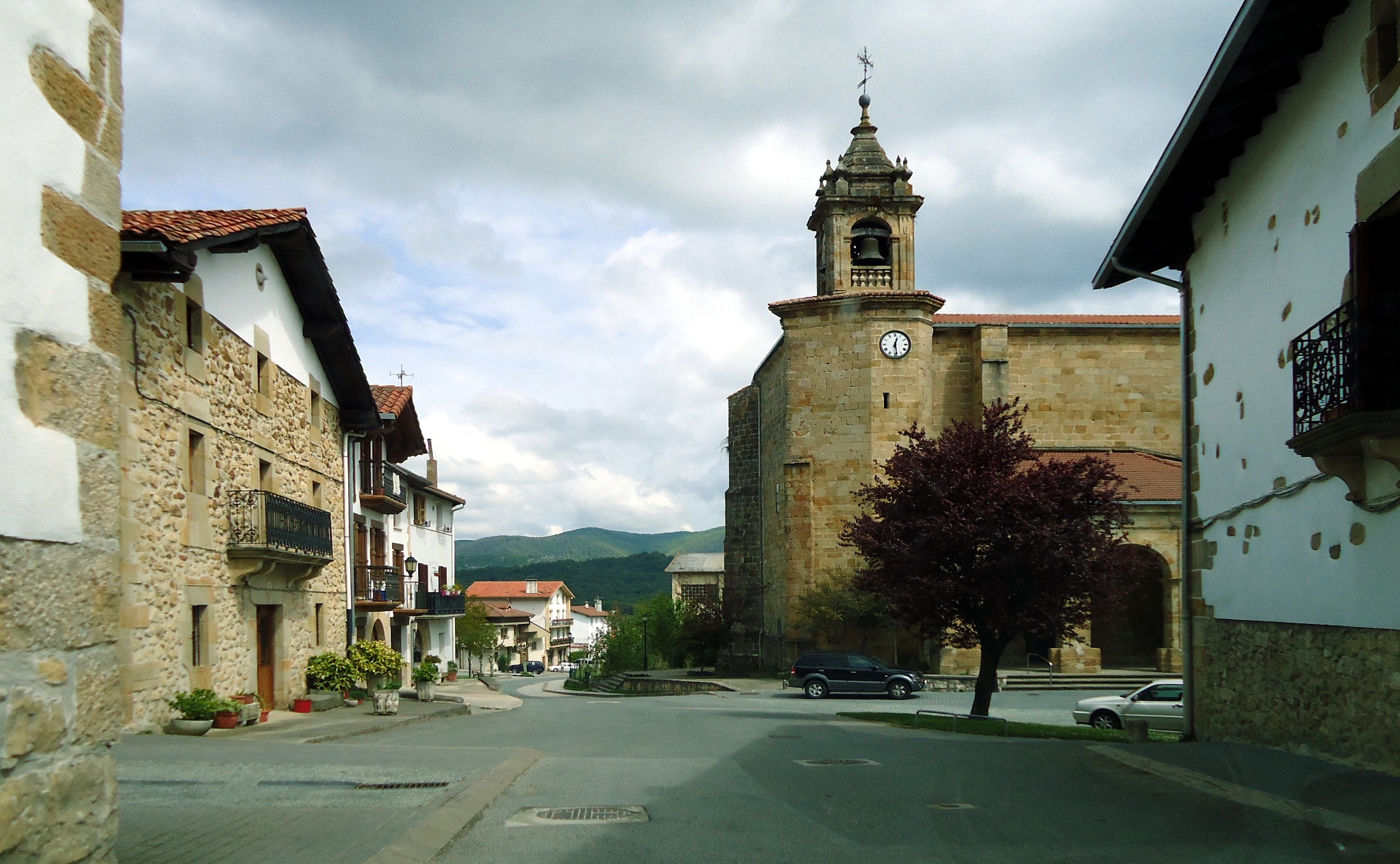 Urdiain village (Sakana, Navarre)